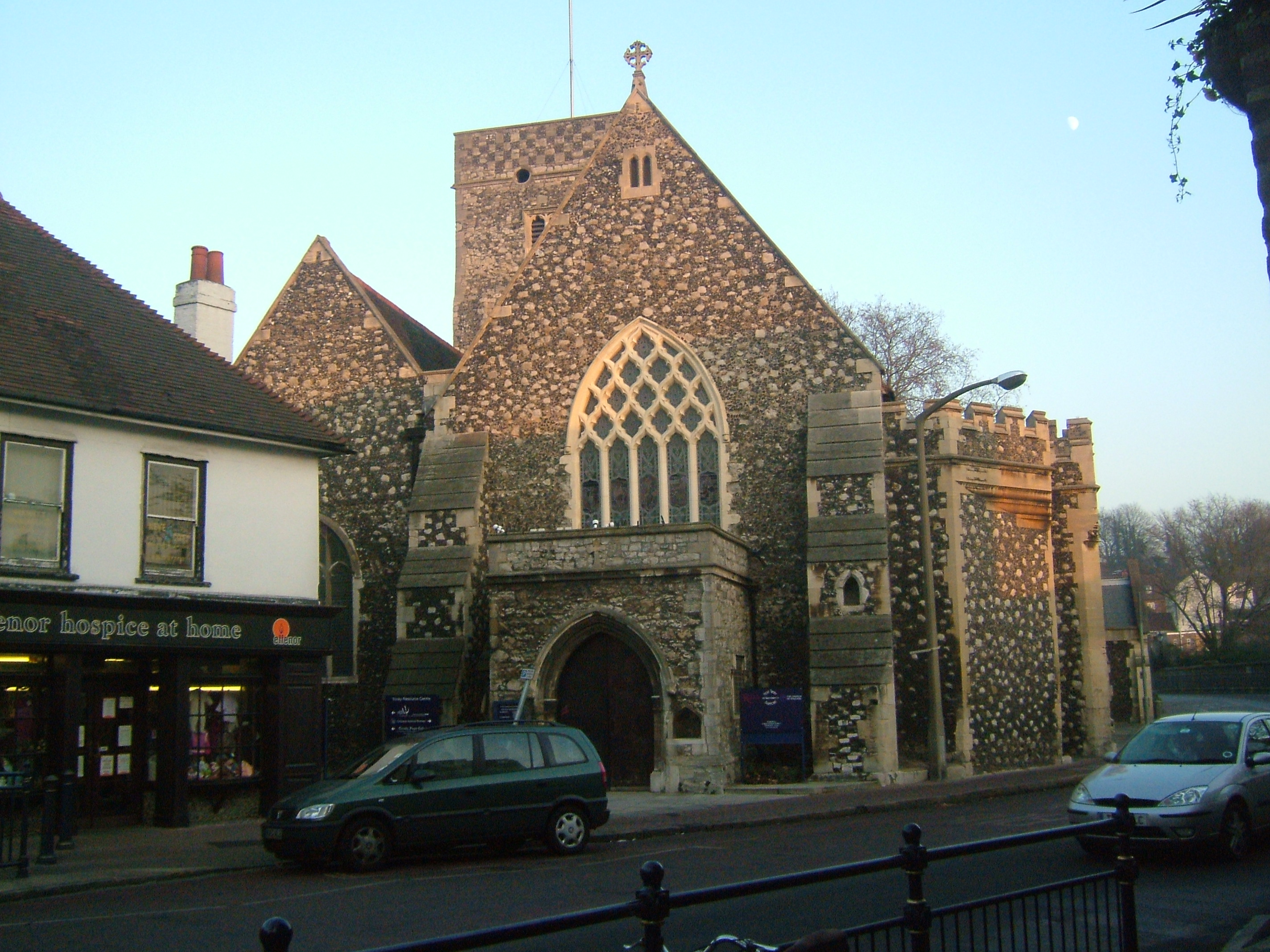 Dartford is a town in North Kent, England. Church